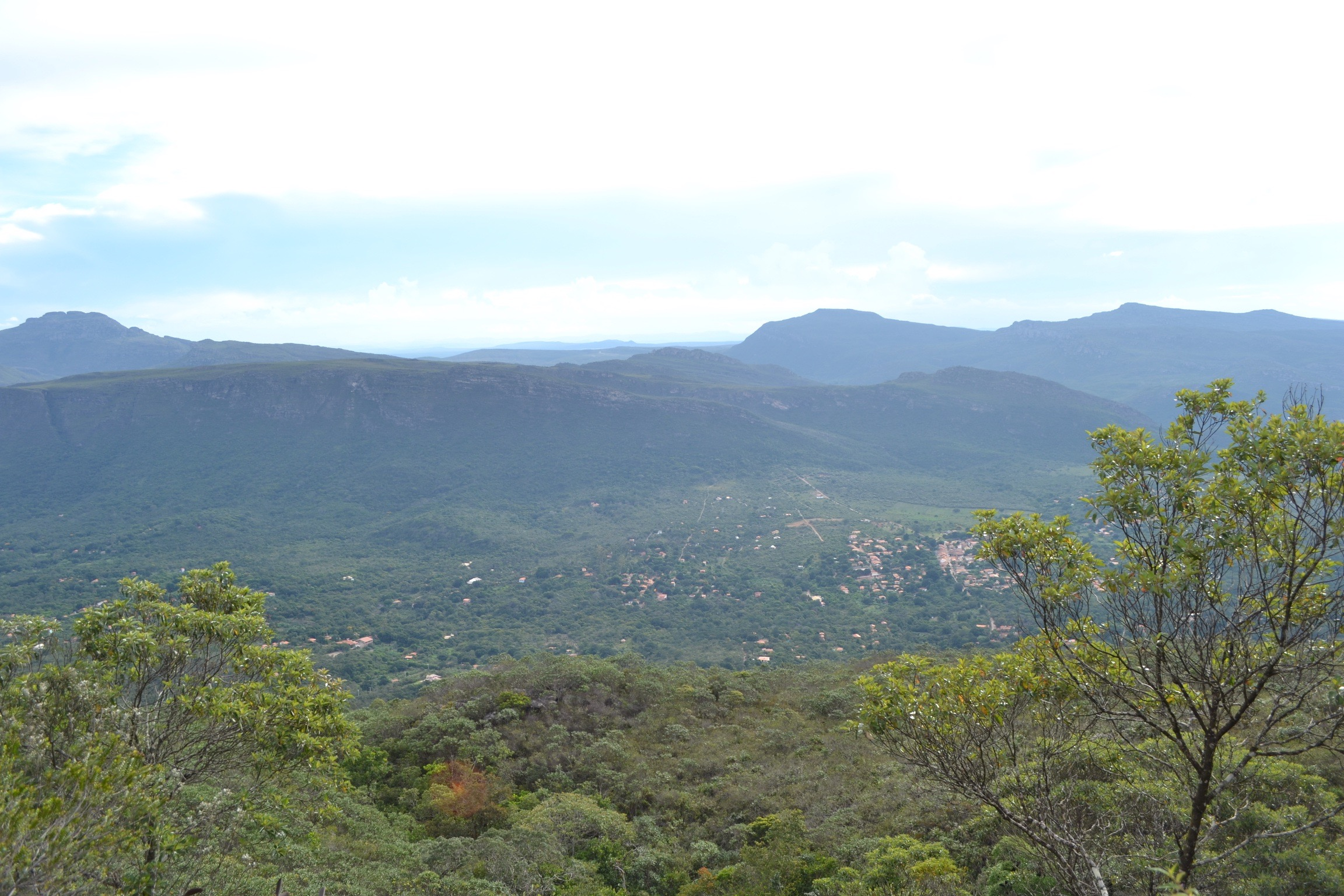 Photo showing human constructions in the vicinity of areas of campo rupestre